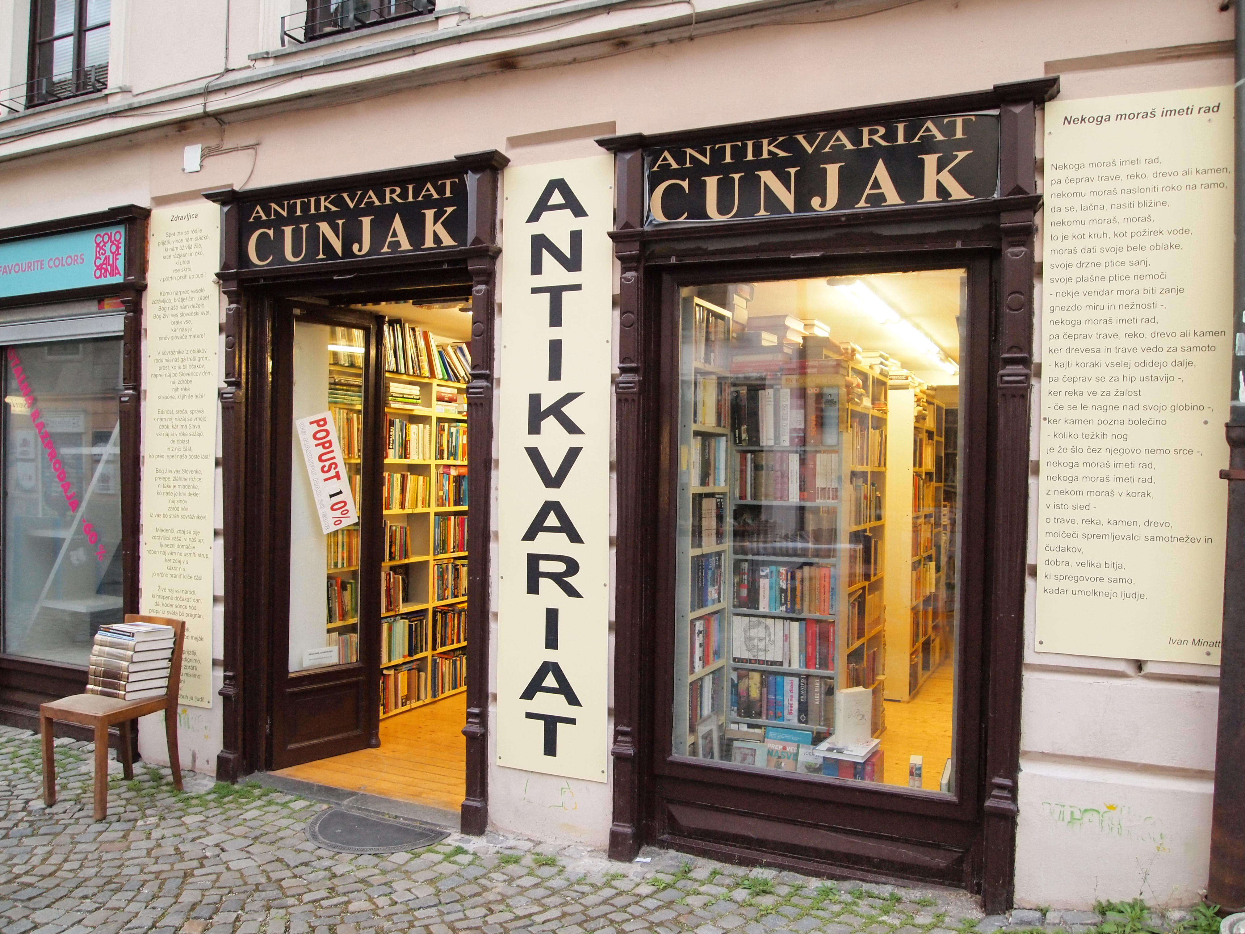 Antikvariat Cunjak in Ljubljana. This photograph was taken with a Olympus E-PL1.